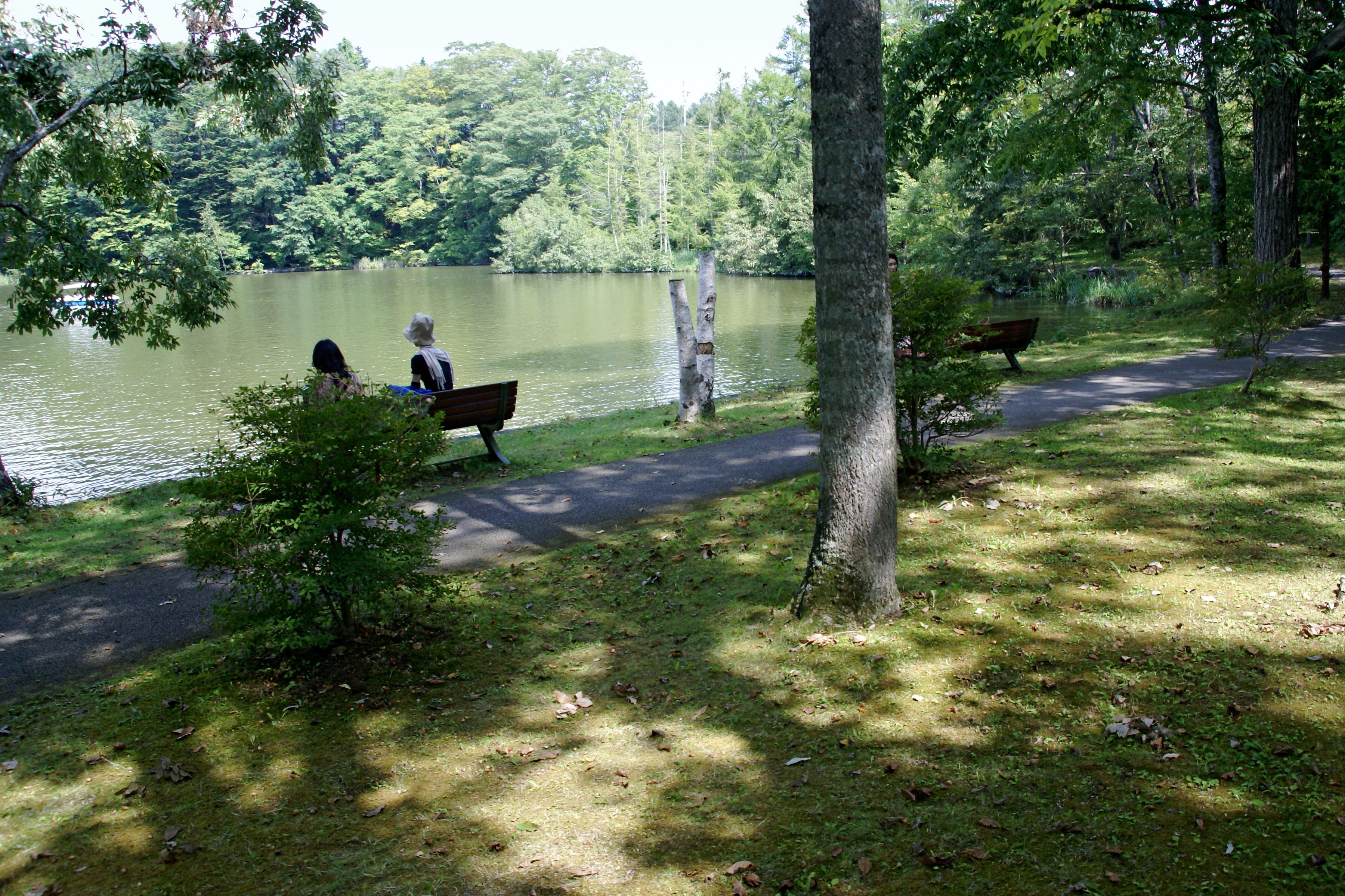 Karuizawa Taliesin in Karuizawa, Nagano prefecture, Japan